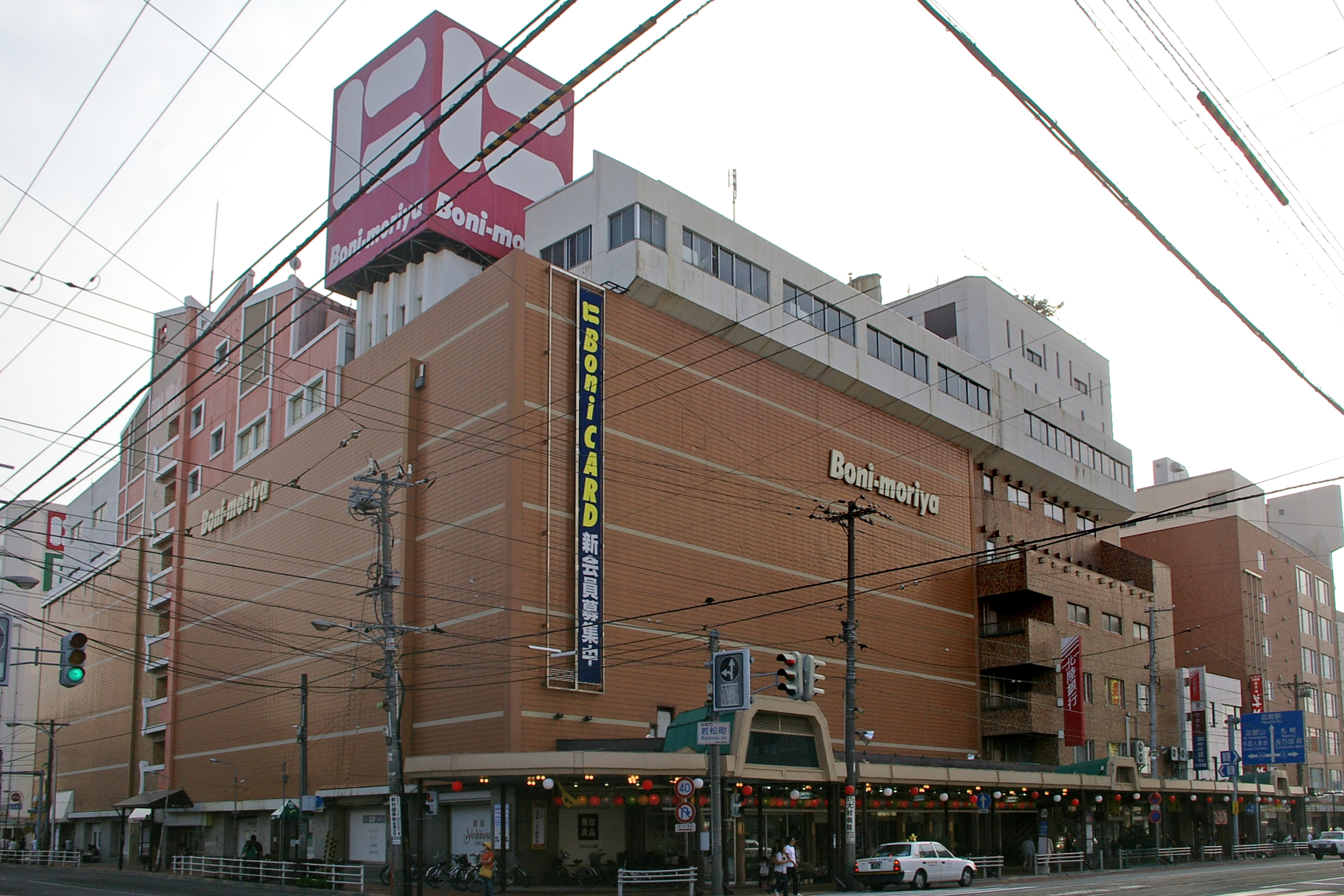 Photograph of Boni Moriya department store in Hakodate, Hokkaido, Japan.